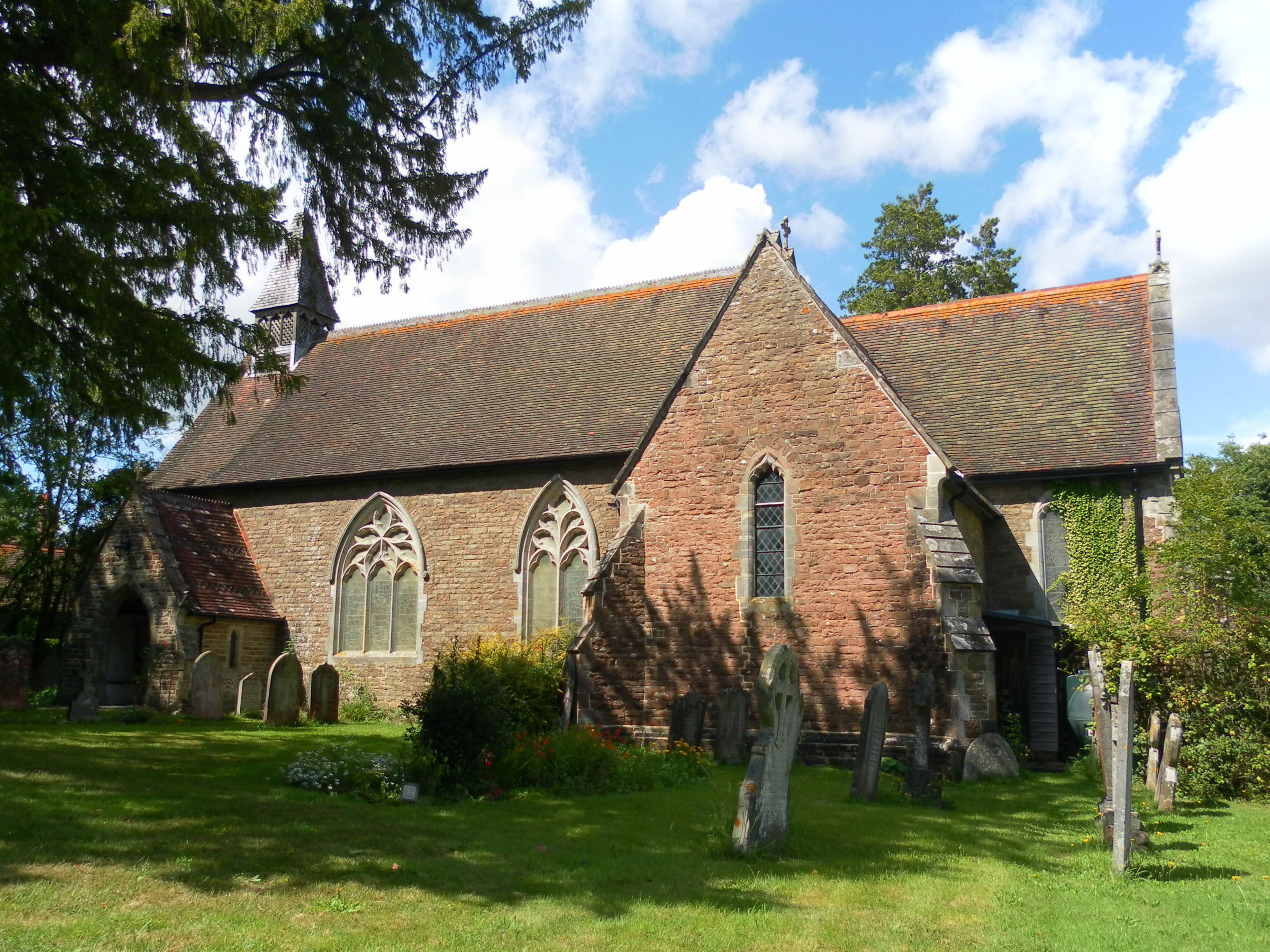 Holy Innocents parish church, Southwater, West Sussex, England, seen from the southeast